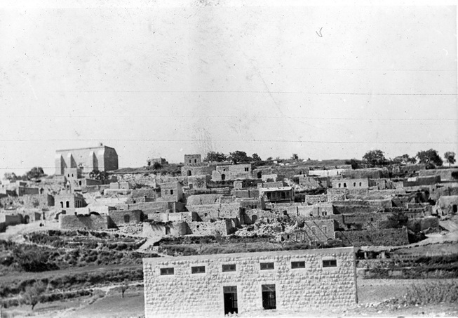 Village of Safsaf in 1938